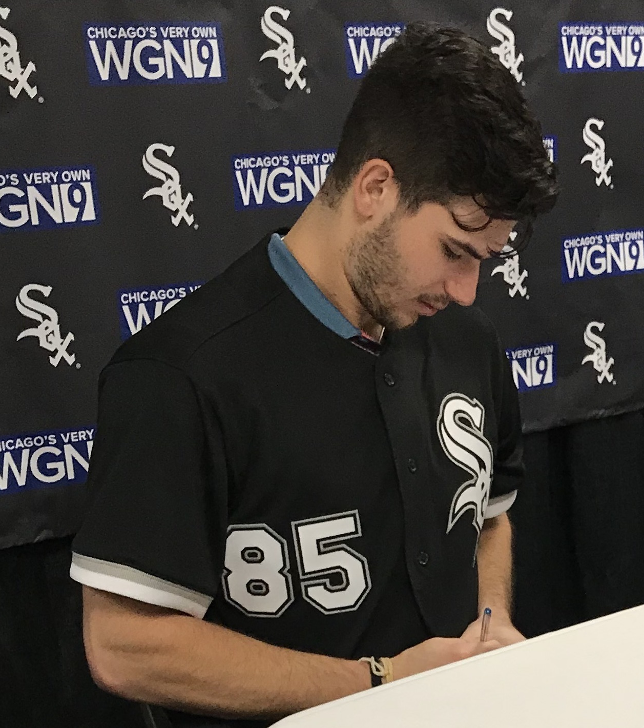 Chicago White Sox prospect Dylan Cease signs autographs at SoxFest 2019